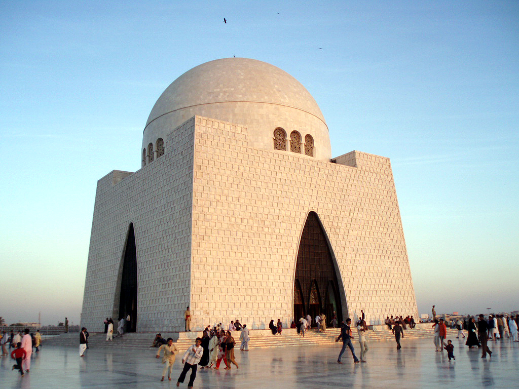 Tomb of Mohamad Ali Jinnah, Karachi